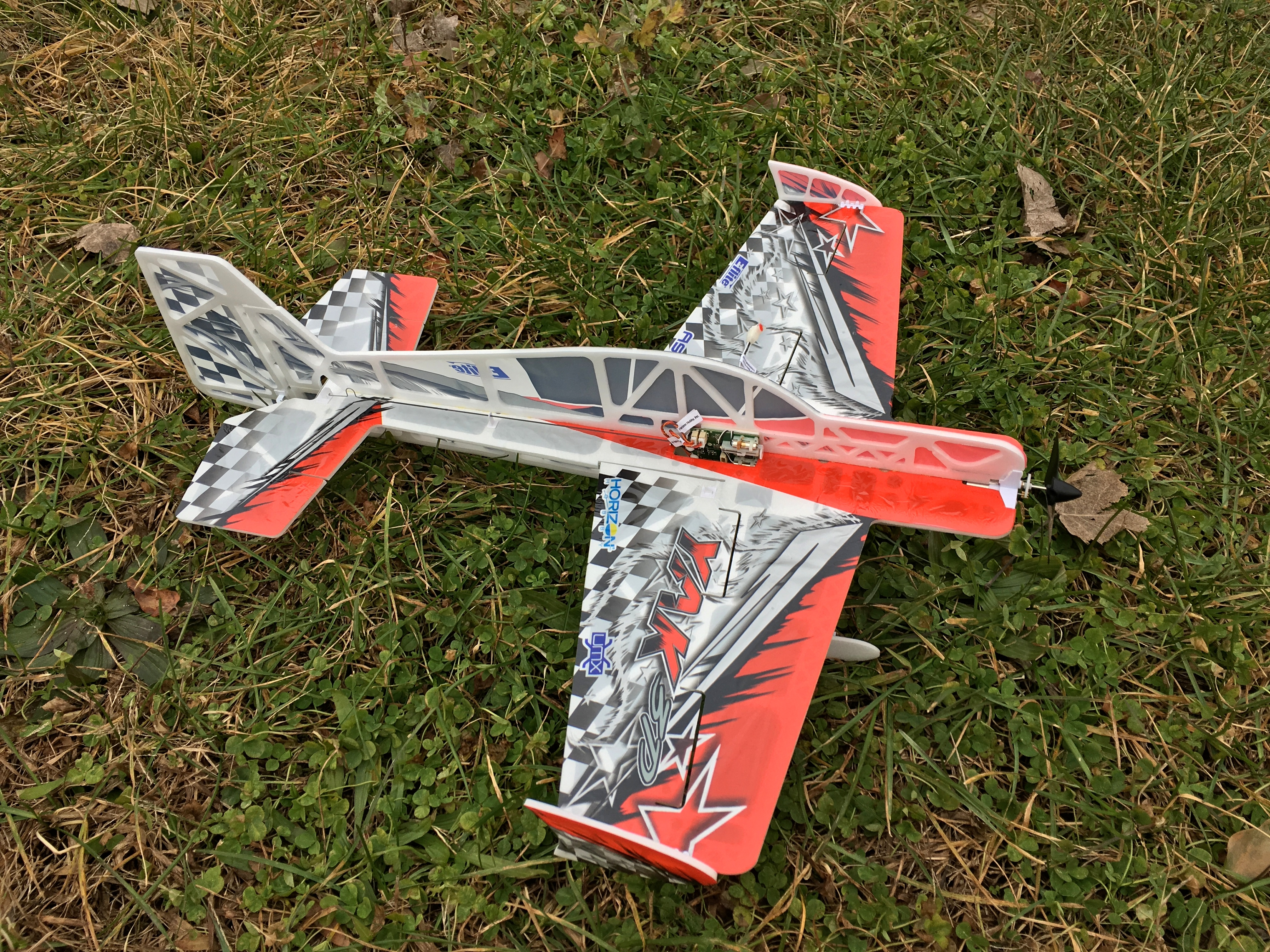 E-flite UMX Yak 54 3D, a micro radio-controlled airplane, at the HHAMS Aerodrome.